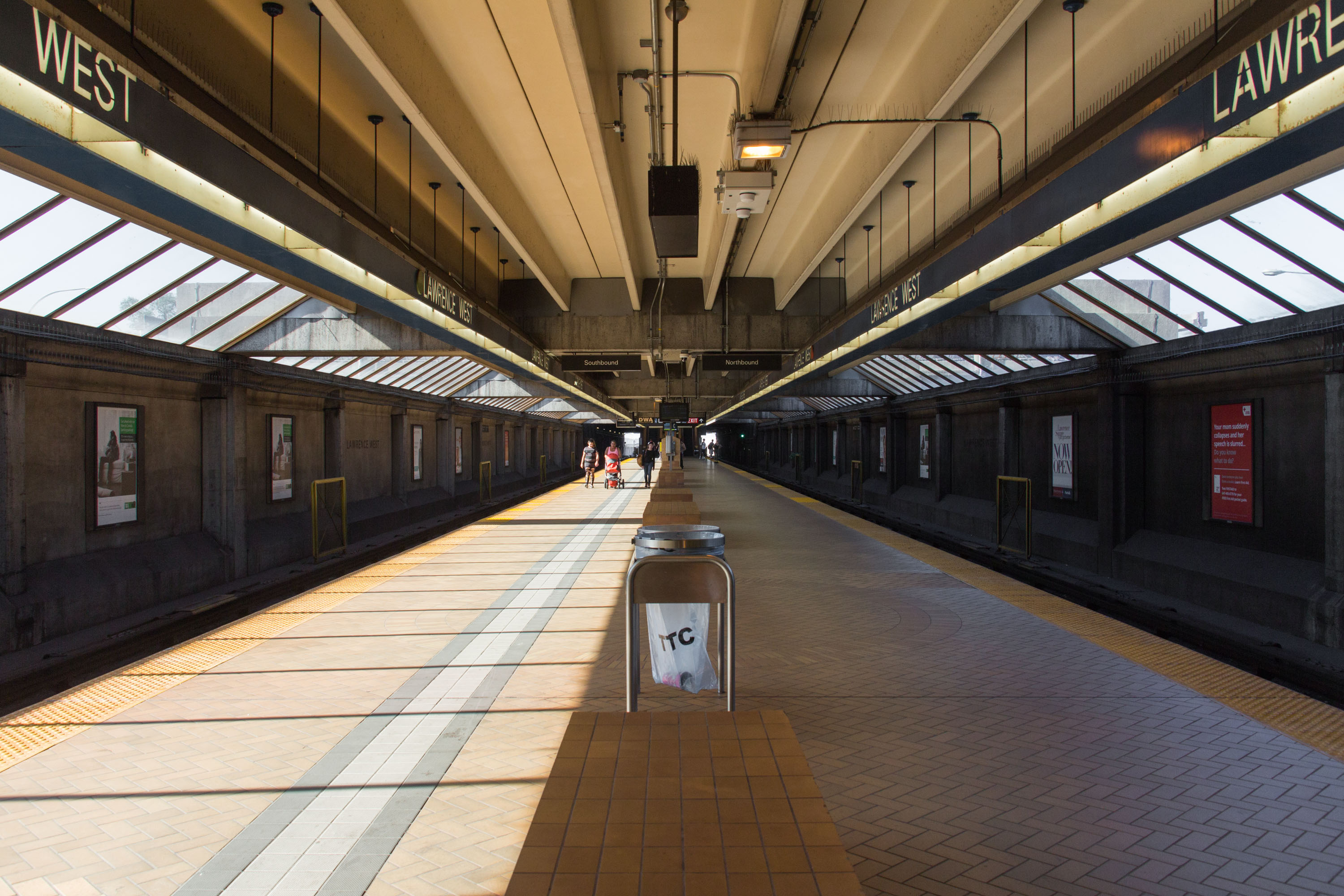 Lawrence West Station platform